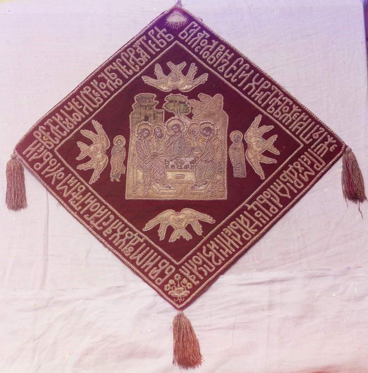 Epigonation. "The Hospitality of Abraham". Ipatiev Monastery.